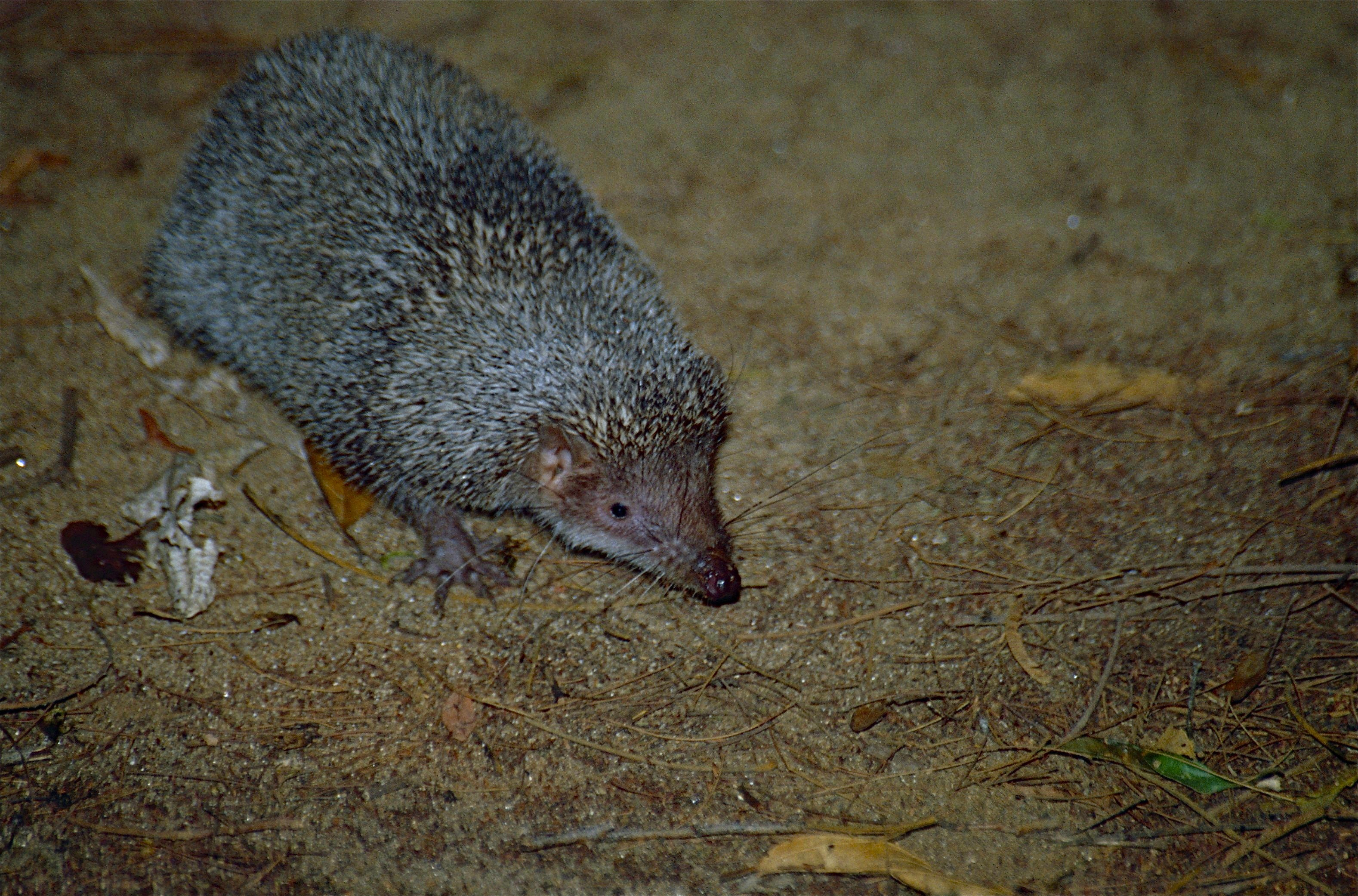 Réserve de Berenty, Amboasary Sud, MADAGASCAR Scanned Slide from 1998